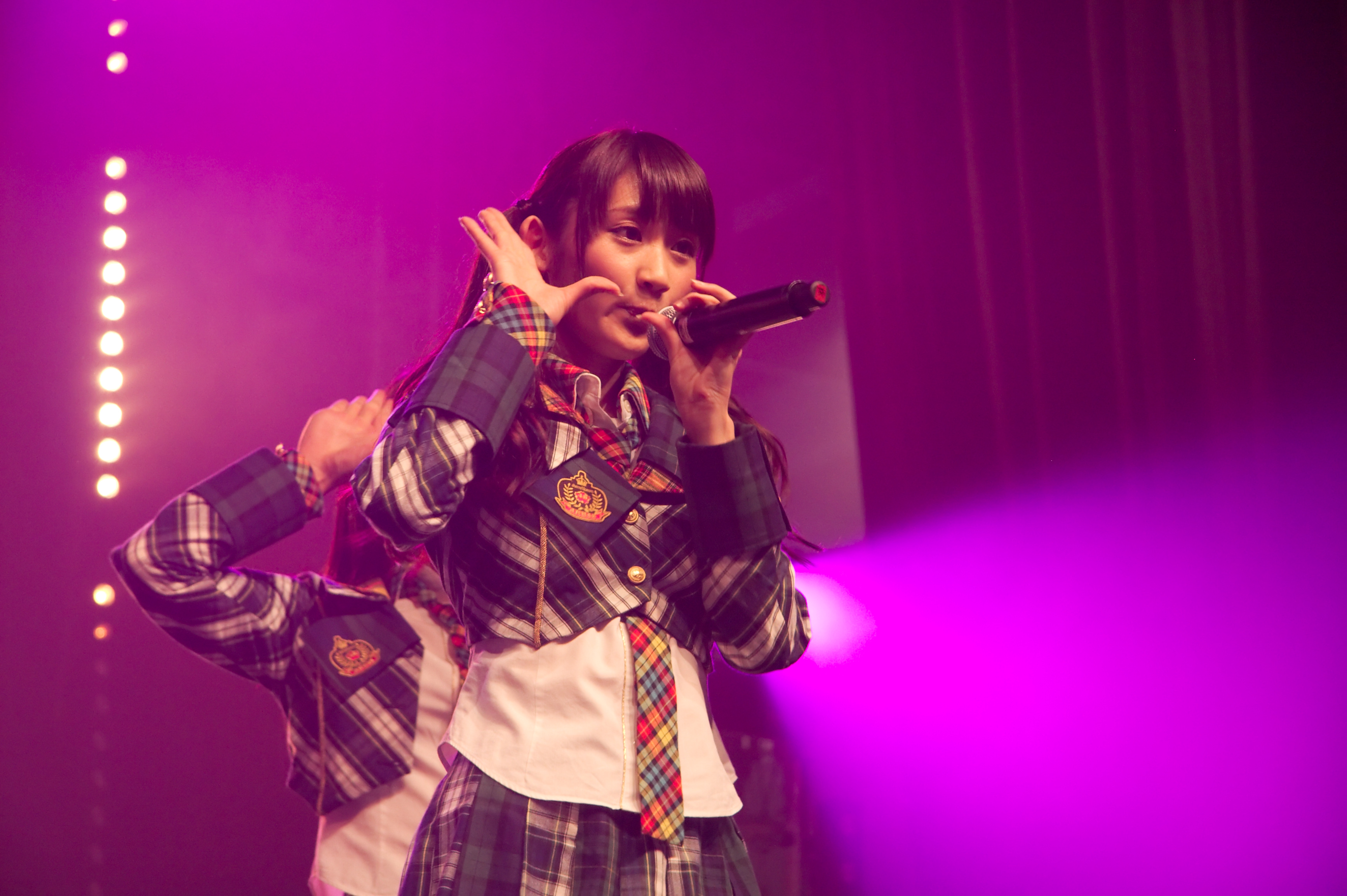 Haruka Kohara. AKB48 live at Japan Expo 2009 (Paris, France).